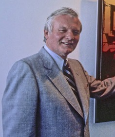 Bill Davis, Premier of Ontario, in Toronto, Ontario, Canada, circa. 1984